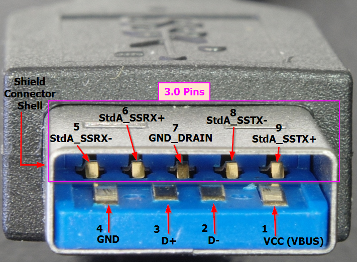 Annotated and cropped version of Connector USB 3 IMGP6024 wp.jpg